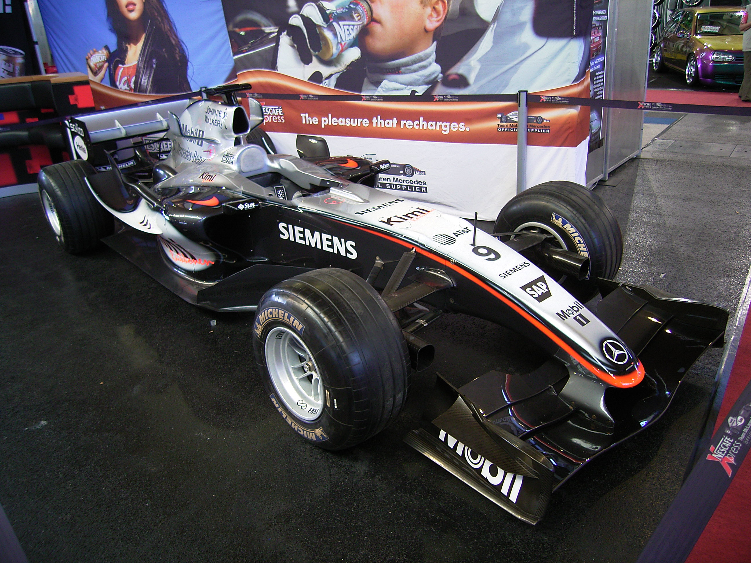 McLaren Formula One Racer